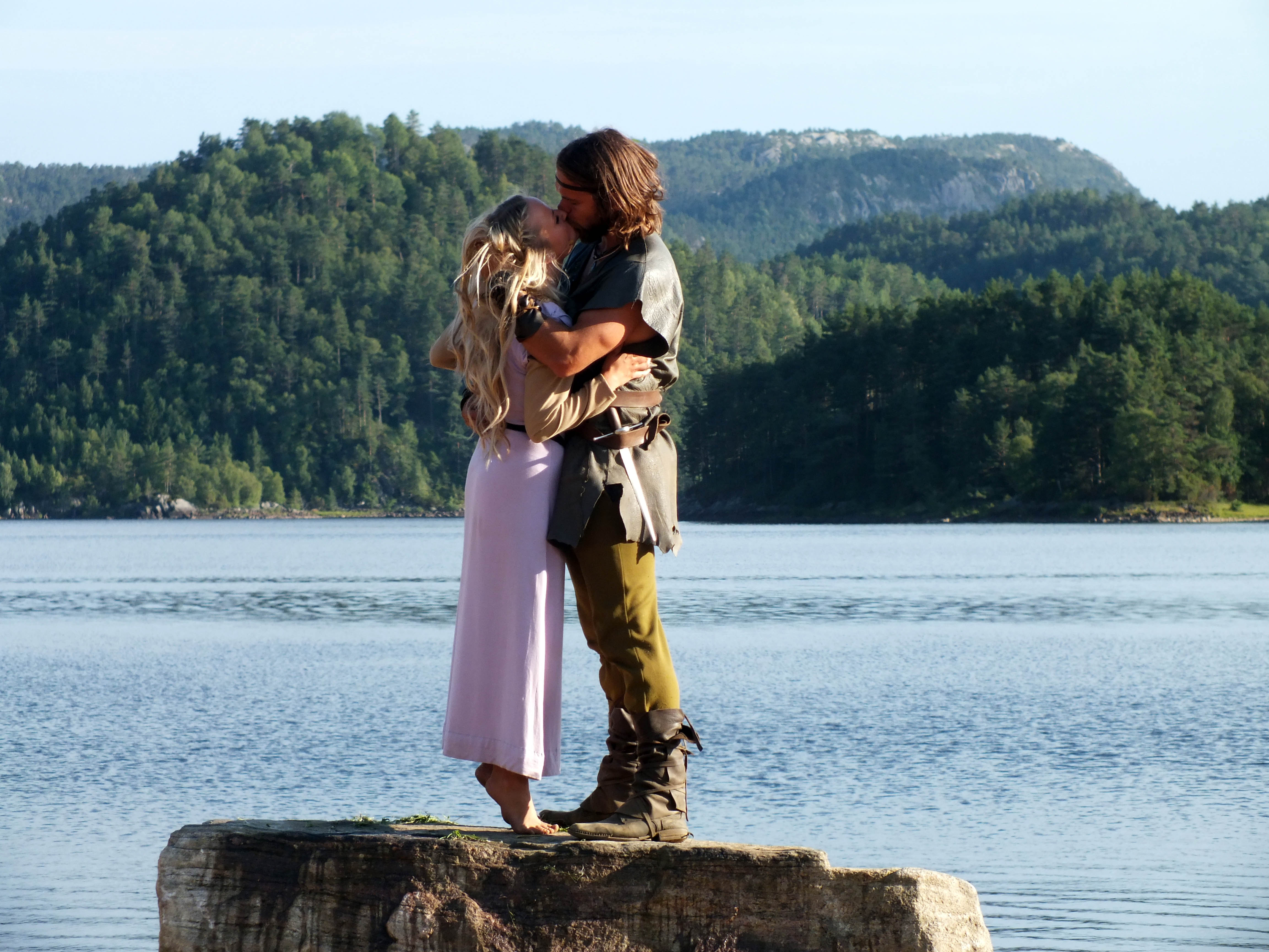 Vilborg (Tiril Heide Steen) and Aude (Brage Bang) in a lovescene in the Viking drama Beltespenna.